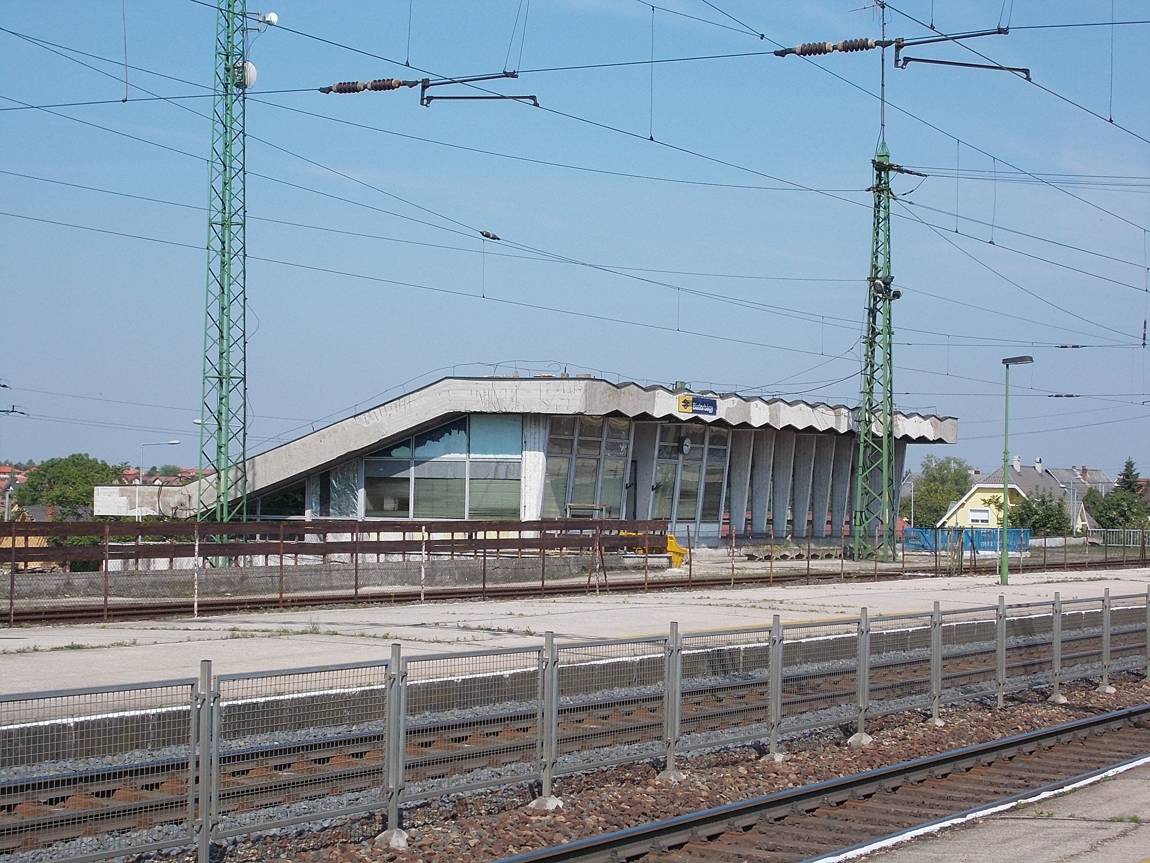 Torbágy, Biatorbágy, Pest County, Hungary.